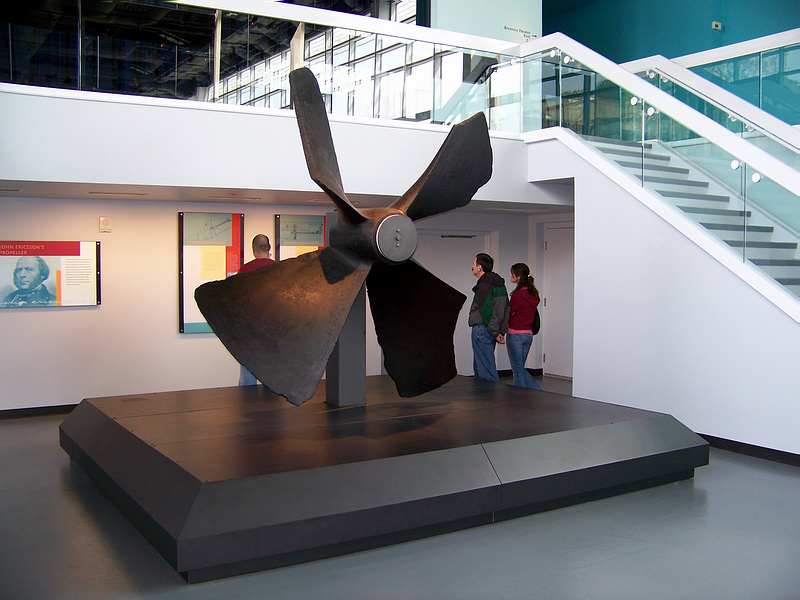 Propeller from USS Monitor, The Mariners' Museum, Newport News